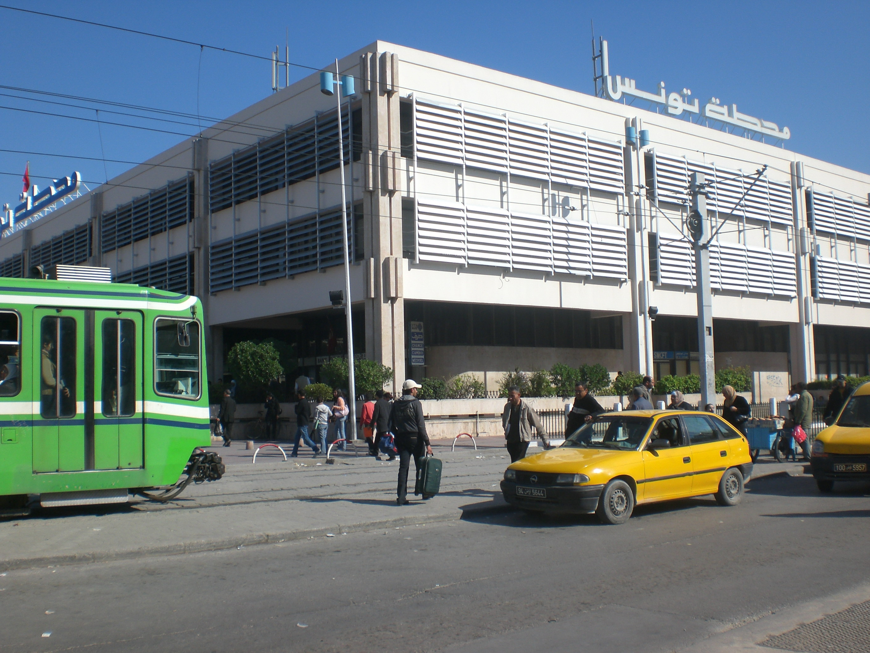 Train Station in Tunis